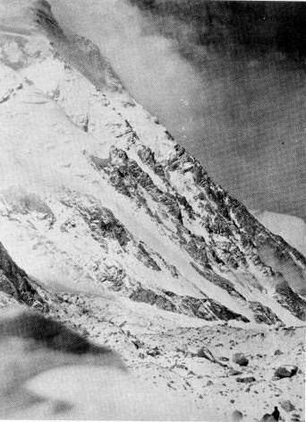 1938 American K2 expedition. First published in India in the Himalayan Journal in 1939 and not previously published.